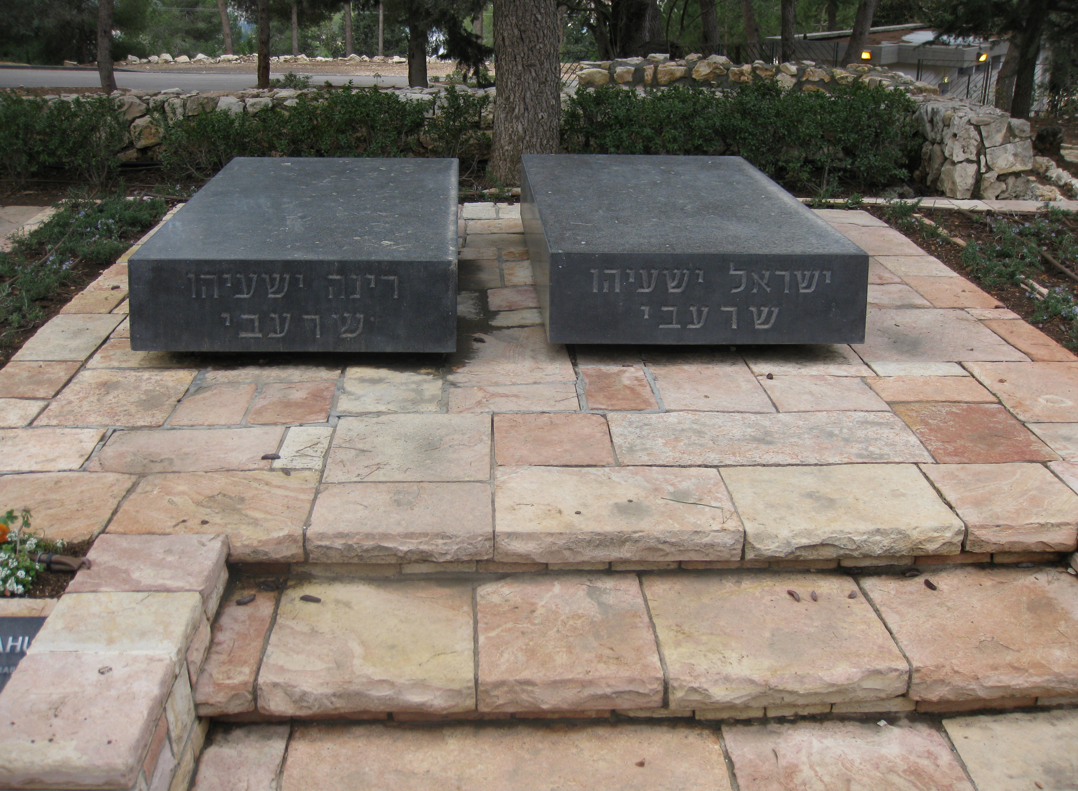 Nation's Great Leaders Graves